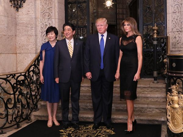 First Lady of Japan Akie Abe, Prime Minister Shinzō Abe, President Donald Trump and First Lady of the United States Melania Trump at Mar-a-Lago.